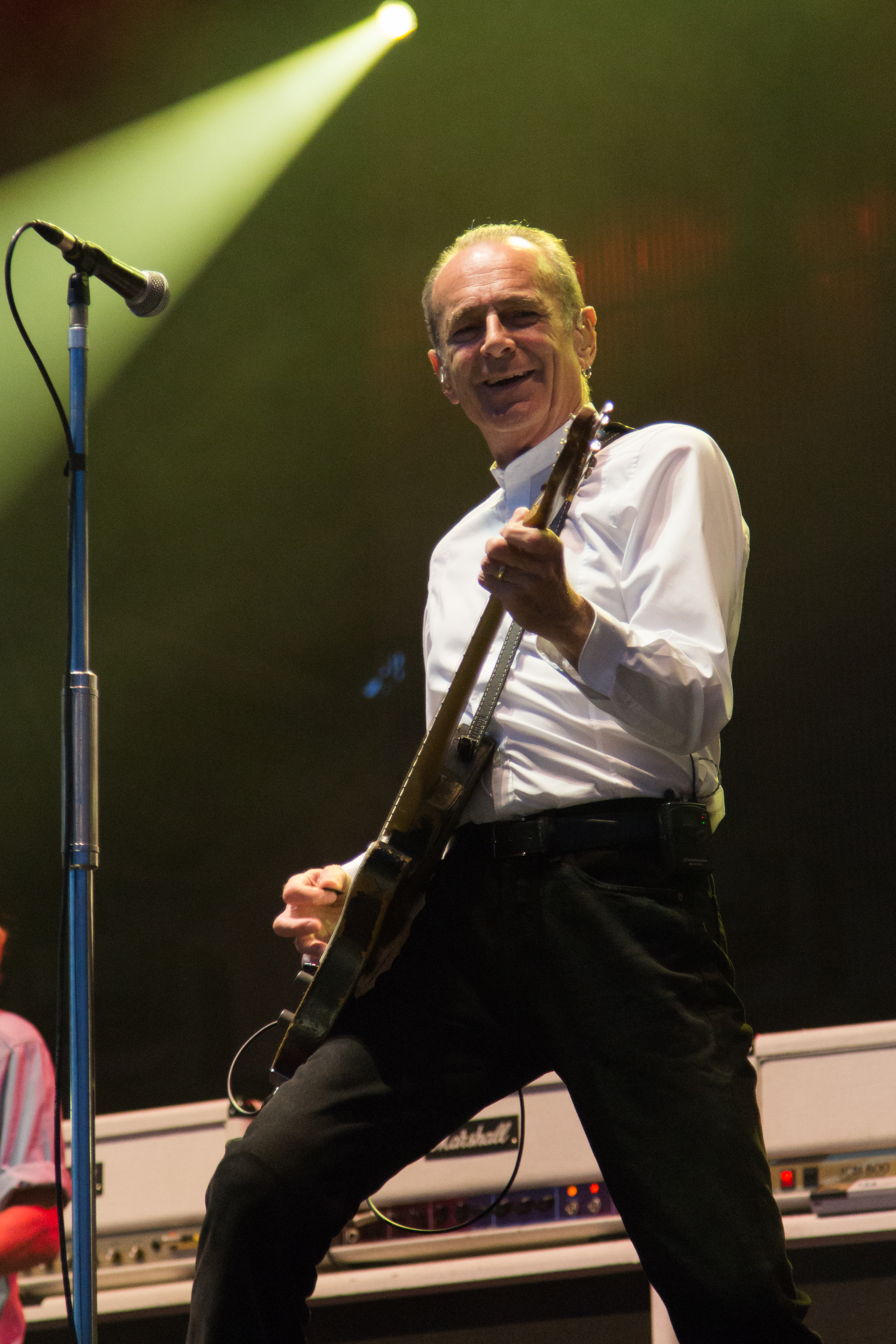 Francis Rossi from Status Quo at the See-Rock Festival 2014